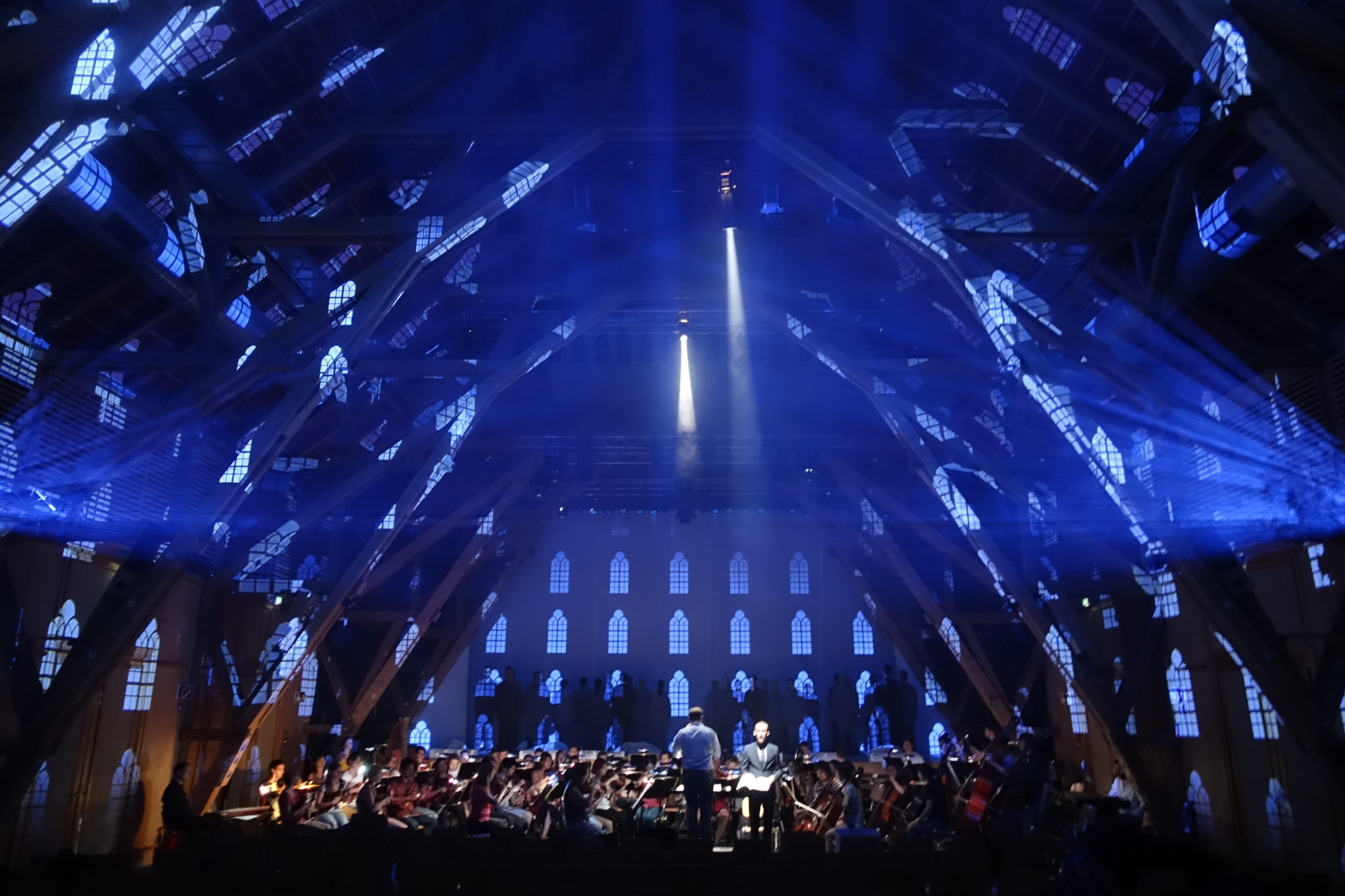 Videodesign for the piece "The Moon" by Carl Orff. Premiere was on 07/17/2015 in Andechs, Germany. Director: Marcus Everding Videodesign: Raphael Kurig and Thomas Mahnecke Lightdesign: George Boeshenz